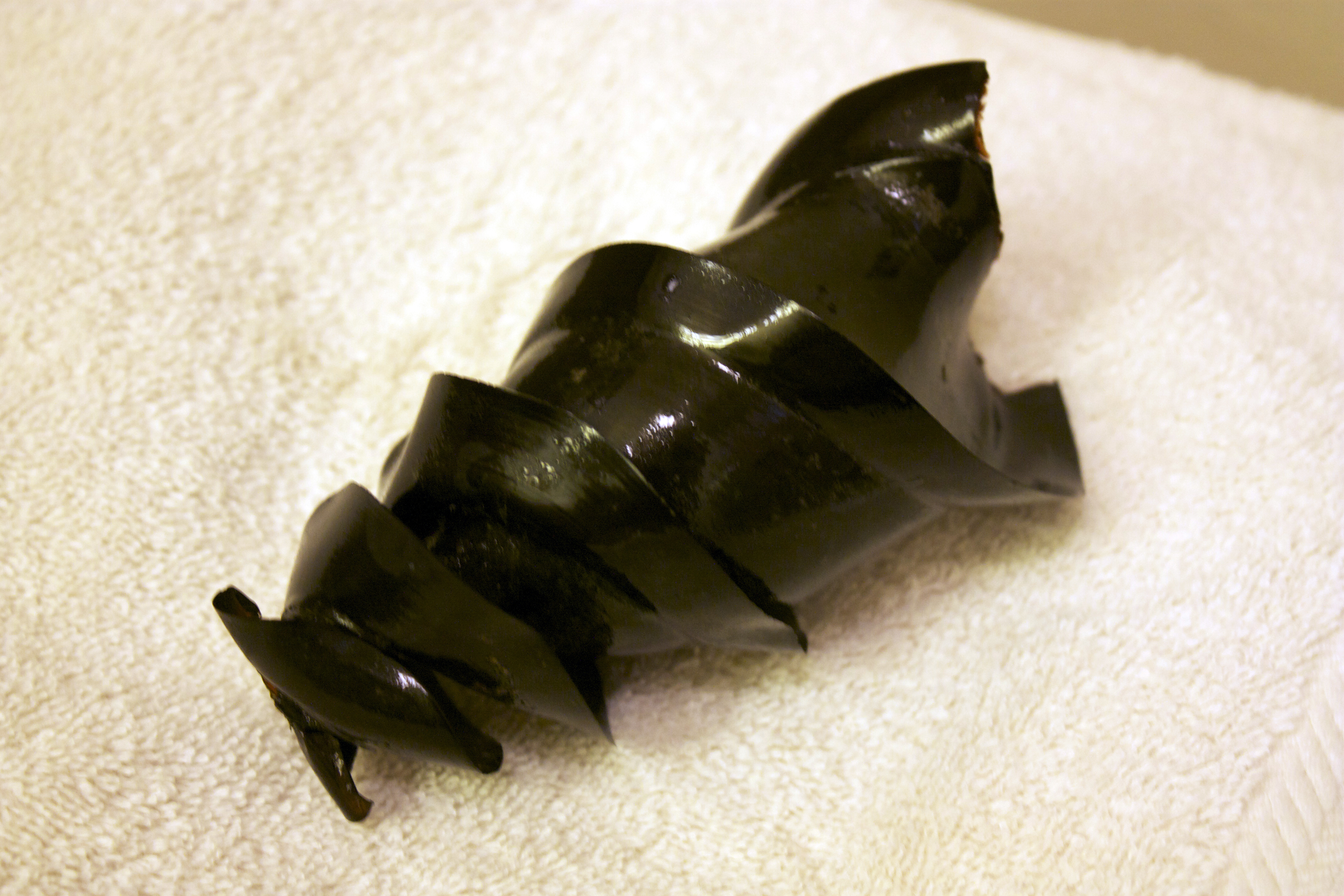 Egg case of the horn shark (Heterodontus francisci), from Morro Bay State Park.